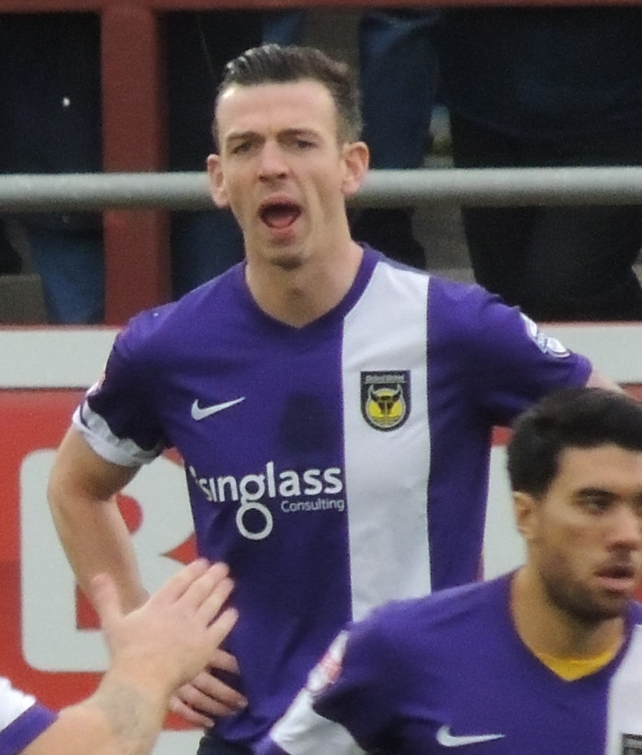 Michael Raynes. Image cropped from original at flickr.